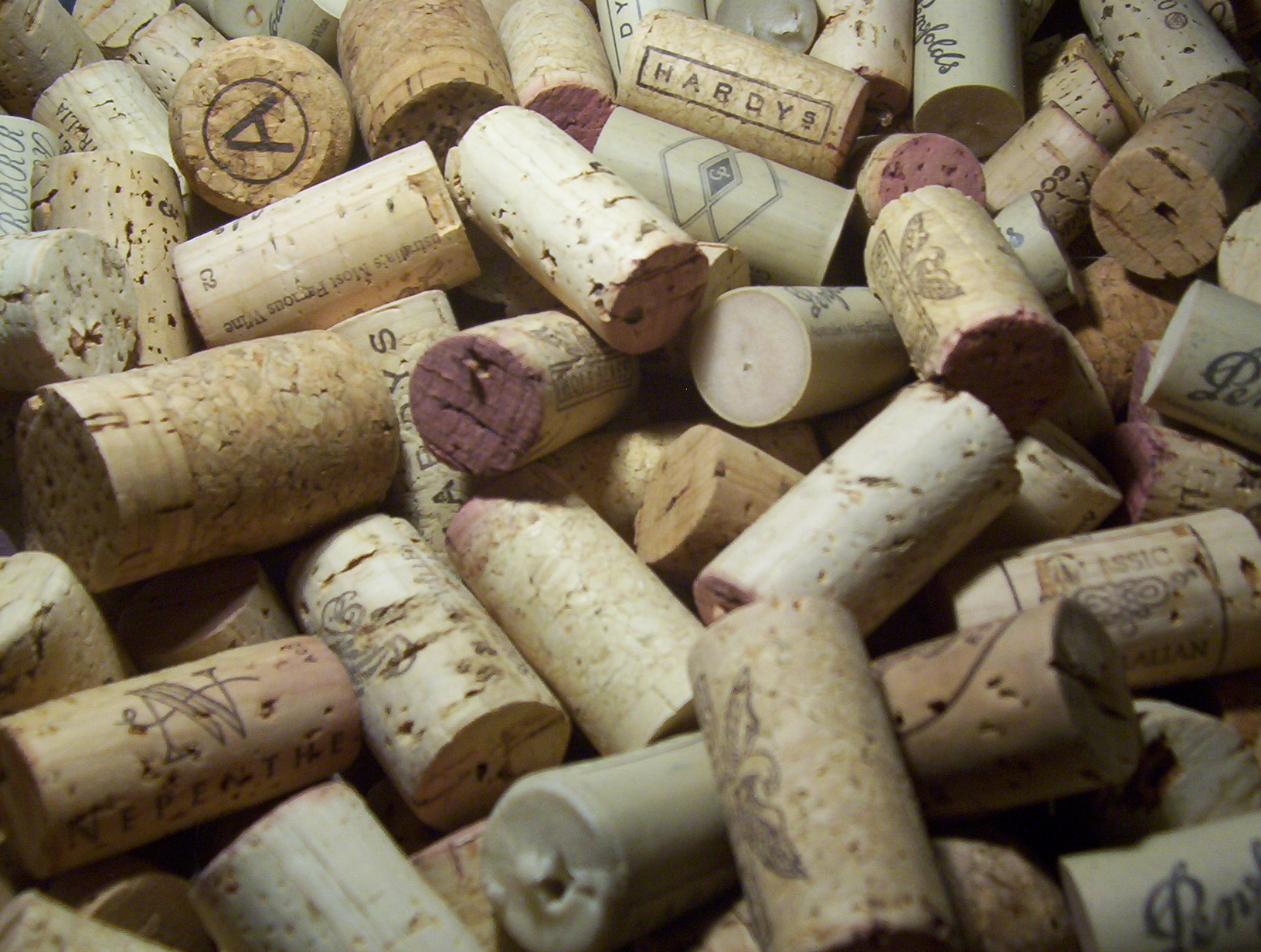 A picture, of corks. Taken: 24/9/2006 Taken By: User: Dfrg.msc Uploaded on: 24/9/2006 Uploader: User: Dfrg.msc Feel free to use this image anywhere and in anyway, but please consult me first.